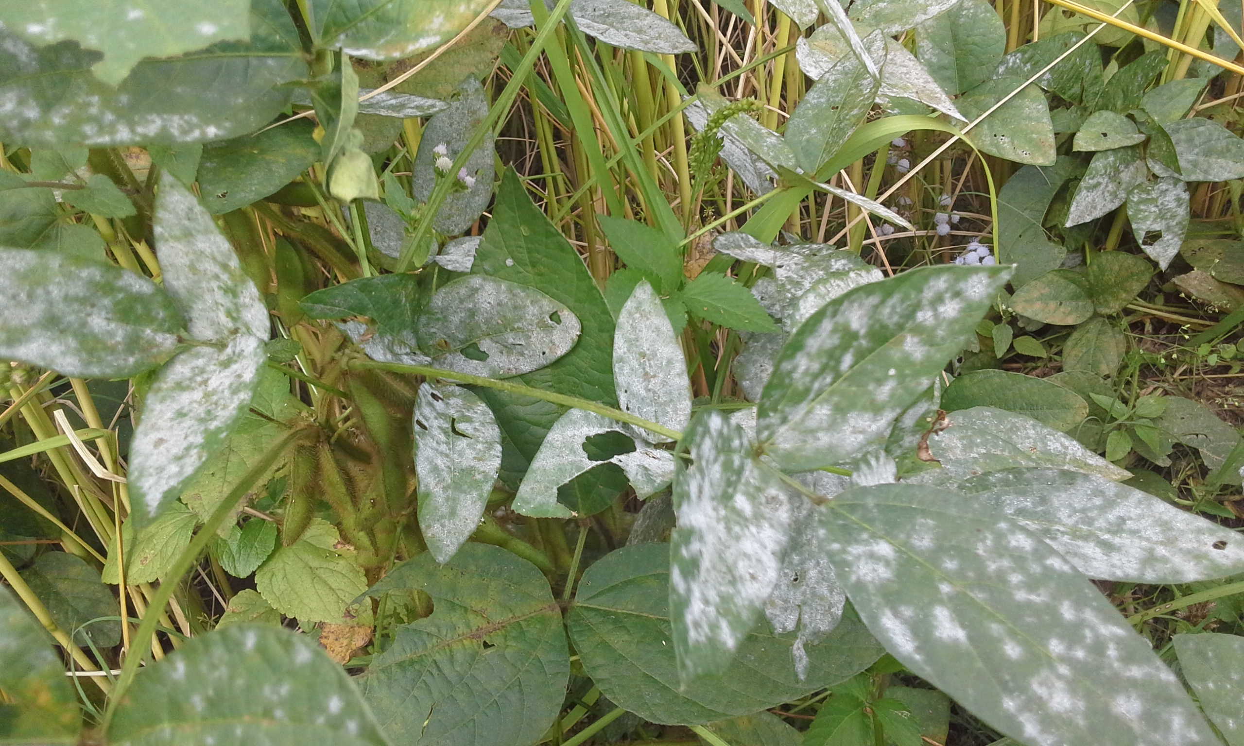 Powdery mildew is a common fungal disease in crop plants caused by the Erysiphe species.